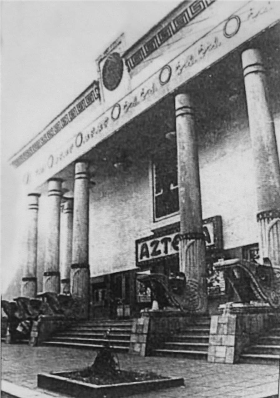 Cine theater of Rio de Janeiro - reproduction of one old photo of 1938